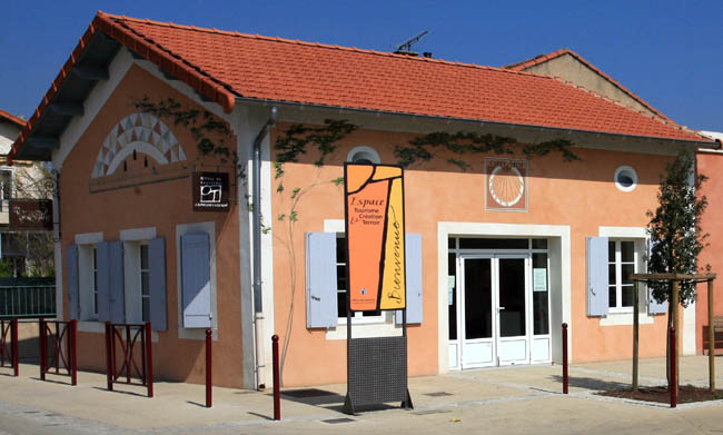 Village of Cheval Blanc, Vaucluse, France